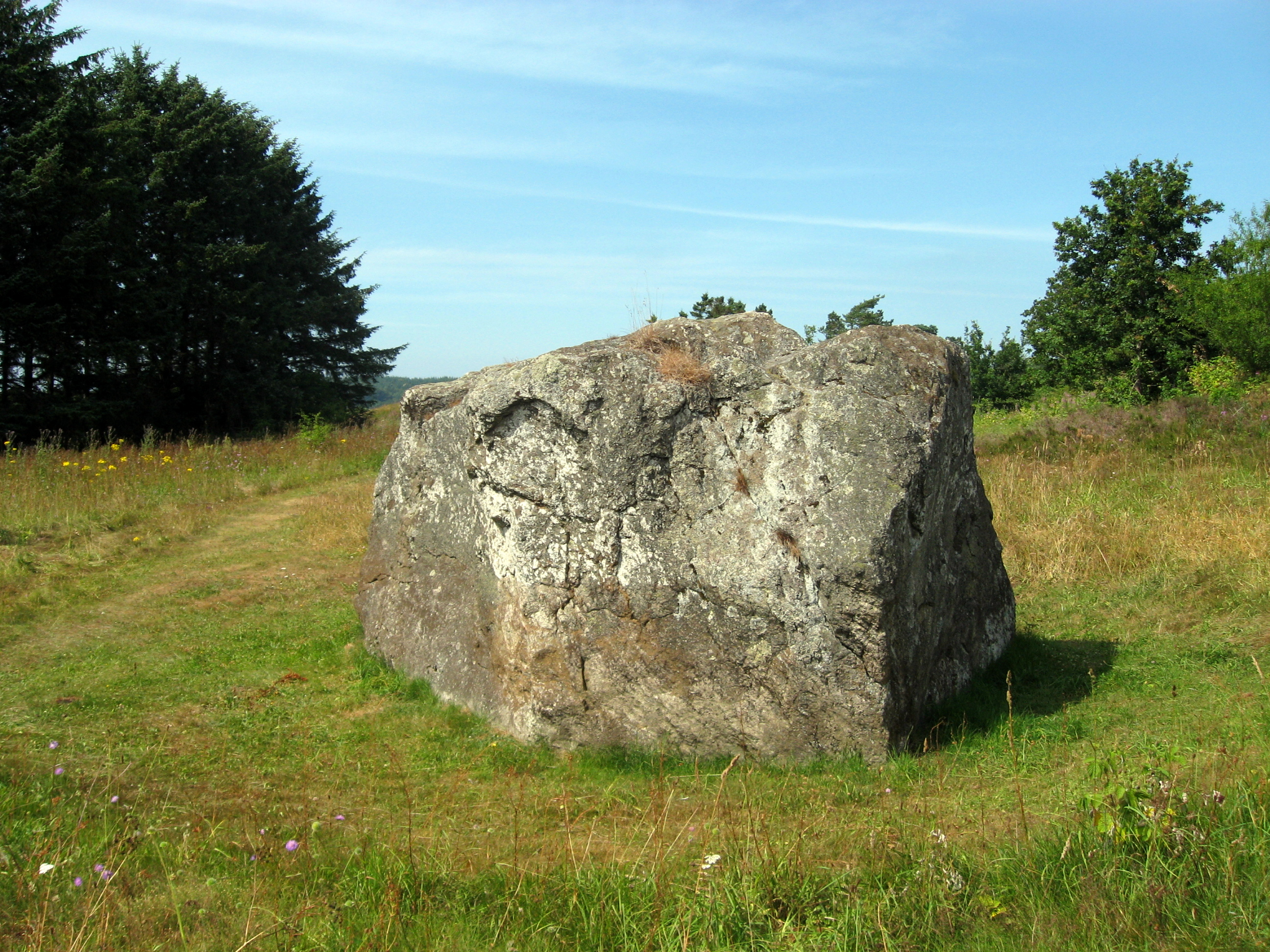 Janum Kjøt, a glacial erratic in the northern Denmark